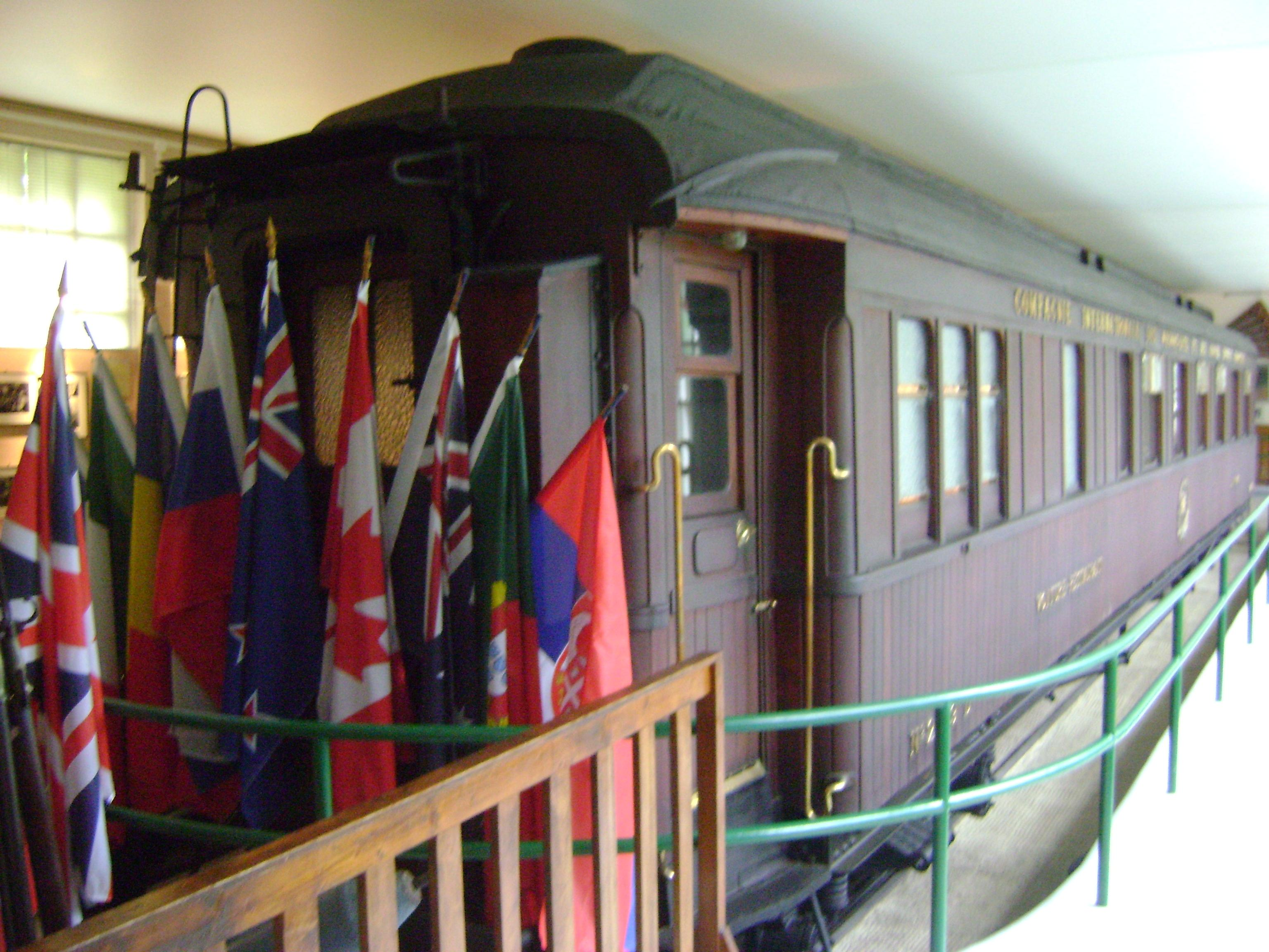 A copy of the wagon where the Armistice of 11 November 1918 between the Allies and Germany was signed and the Armistice of 22 June 1940 between Nazi-Germany and France was signed. Photographed at Rethondes (Forest of Compiègne), France at the Clairière de l'Armistice on 3 September 2009.